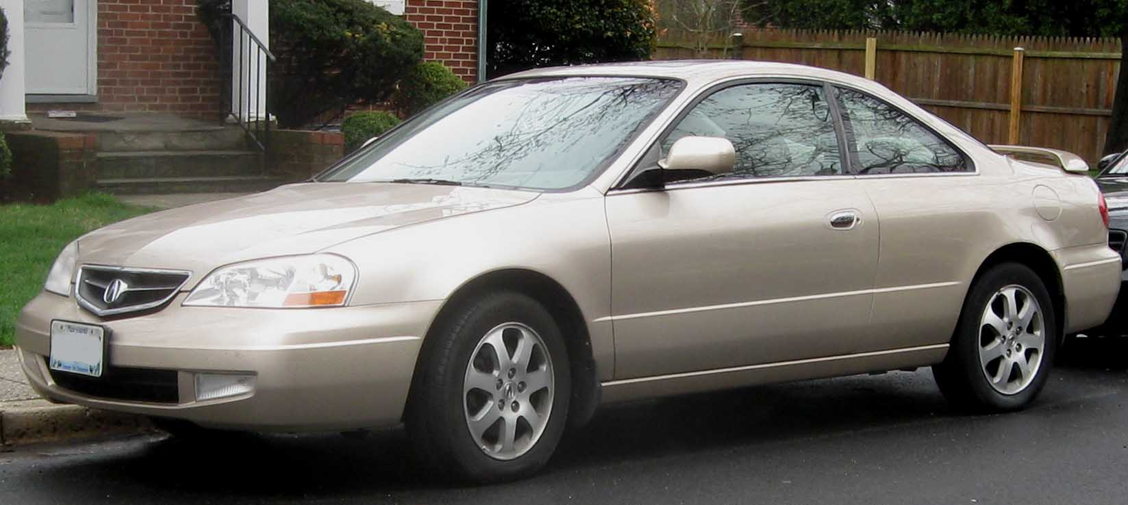 2001-2003 Acura CL photographed in College Park, Maryland, USA.